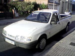 Ford P100 pickup.